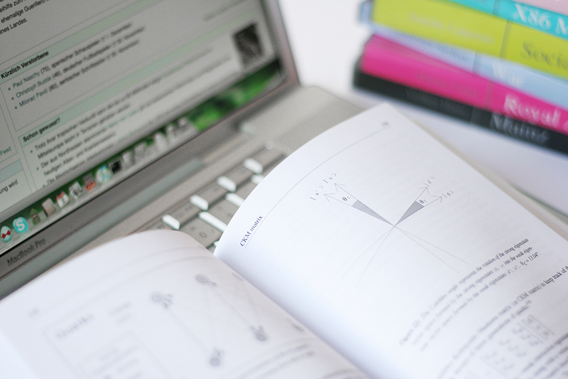 Photos of books made by PediaPress with Wikipedia content.